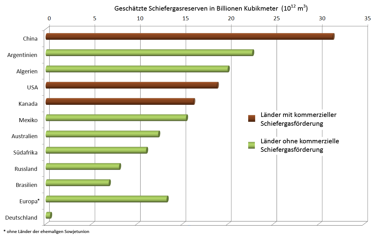 Bar chart showing the global top ten countries ranked by amount of “unproved technically recoverable wet shale gas resources” plus Europe and Germany, created by means of MS Excel 2007, using data from EIA (2013)[1] and Liu et al. (2015).[2]